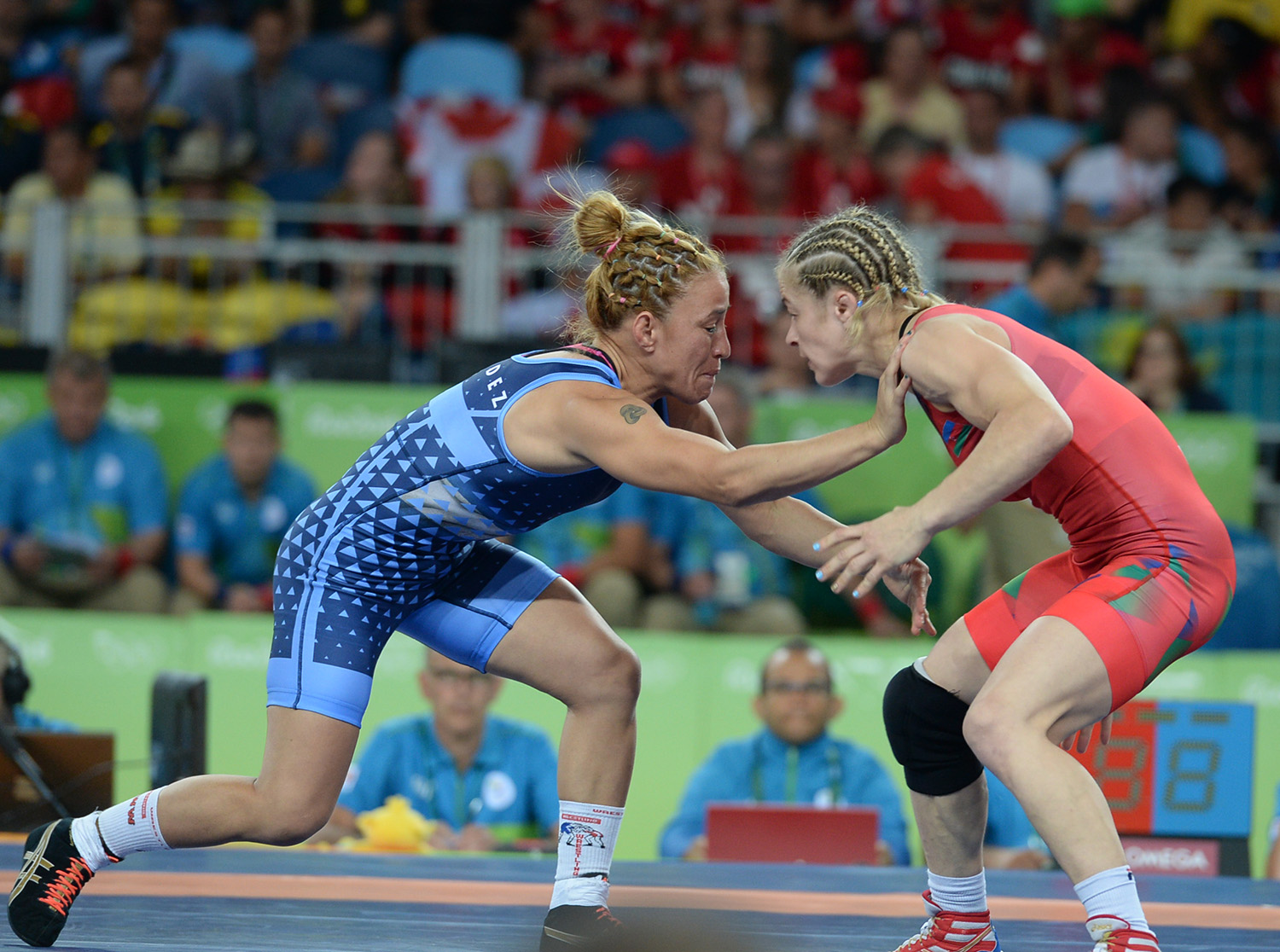 Wrestling at the 2016 Summer Olympics, Stadnik vs Bermudez